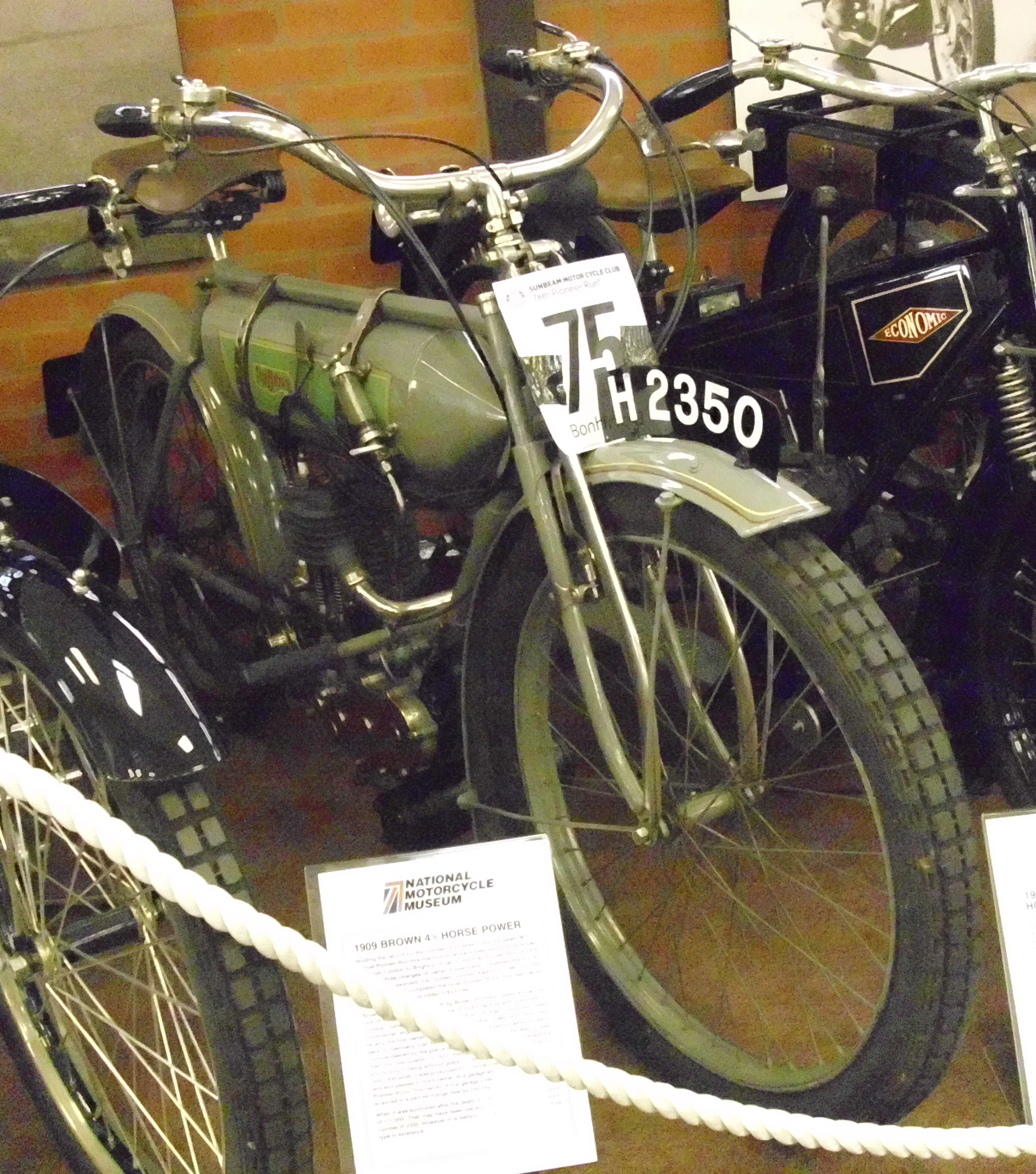 Brown 4 ½ HP Motorrad 1909